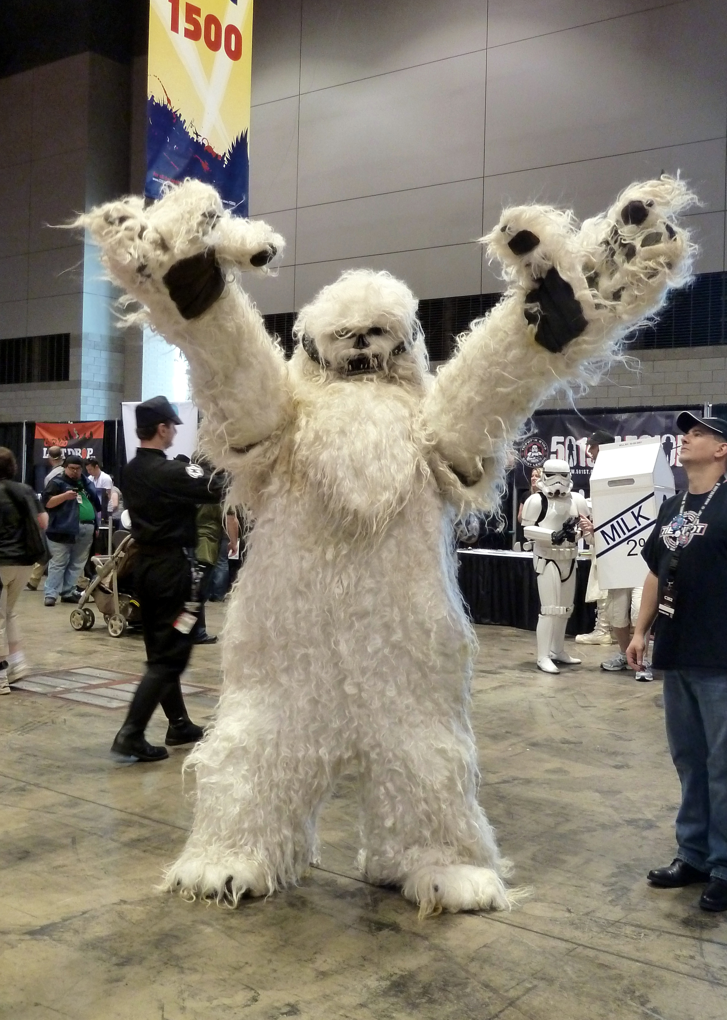 Star Wars Yeti Wampa. You can see just how large this guy is. Cosplay at the 2013 Chicago Comic & Entertainment Expo (C2E2).